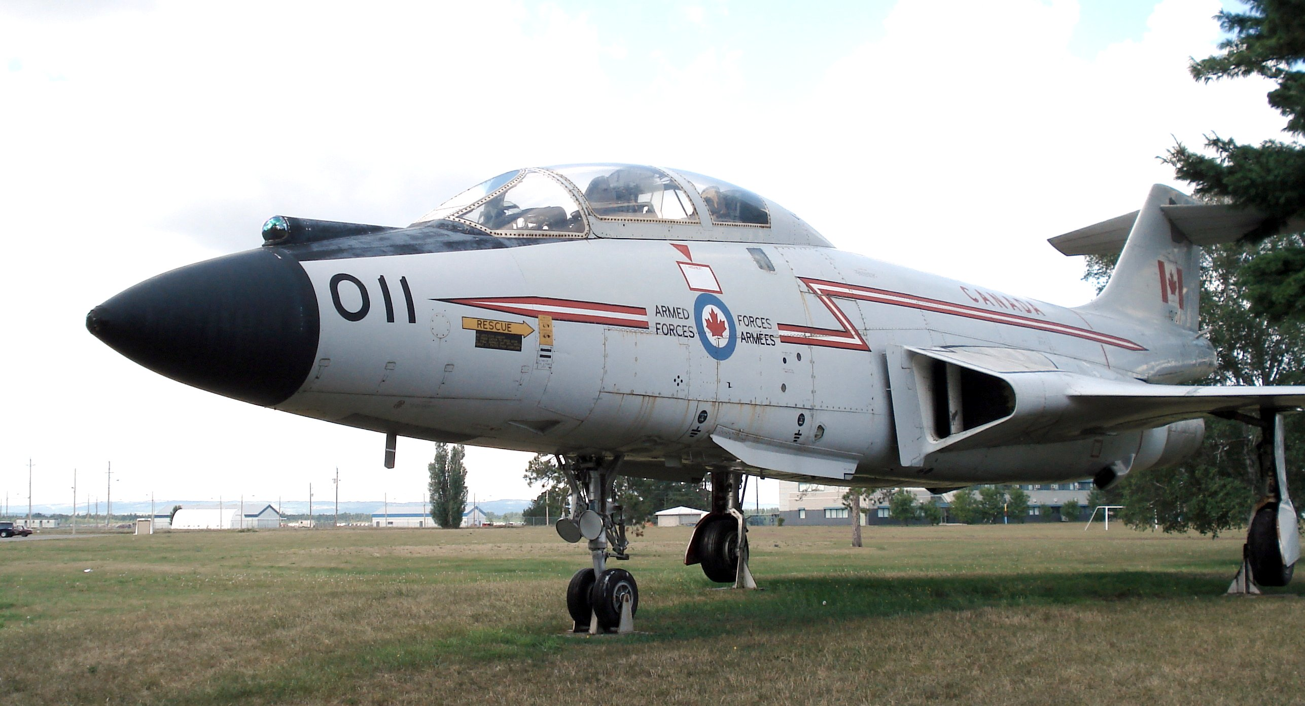 CF-101 Voodoo (Canadian version of US F-101). This example is displayed on the grounds of CFB Borden (Base Borden Military Museum). Photo taken on August 18, 2006. Source: Photo by me, User:Balcer.